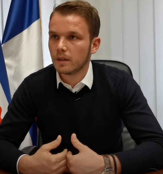 Draško Stanivuković, Bosnian Serb politician